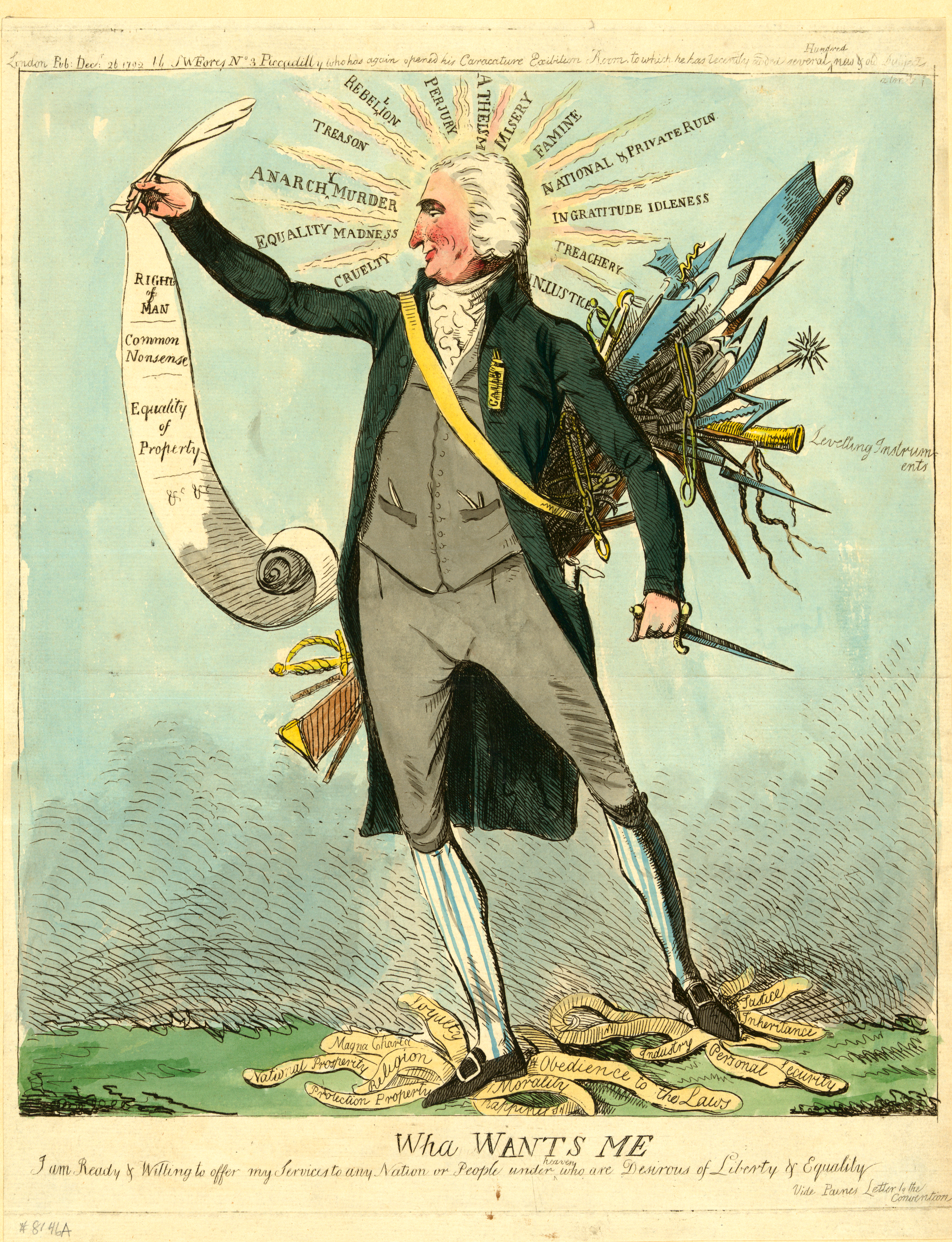 "Thomas Paine, full-length, standing, facing left, holding scroll "rights of man", surrounded by injustices and standing on labels, representing morals and justices, defending measures taken in revolutionary France and appealing to the English to overthrow their monarchy and organize a republic." Color engraving.